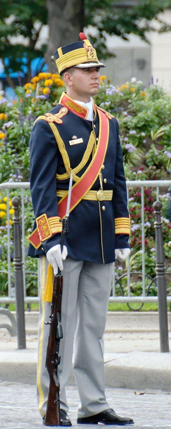 A soldier of the 30th Honour Guard Regiment "Michael the Brave" of Romania during the Bastille Day 2007 military parade on the Champs-Élysées.